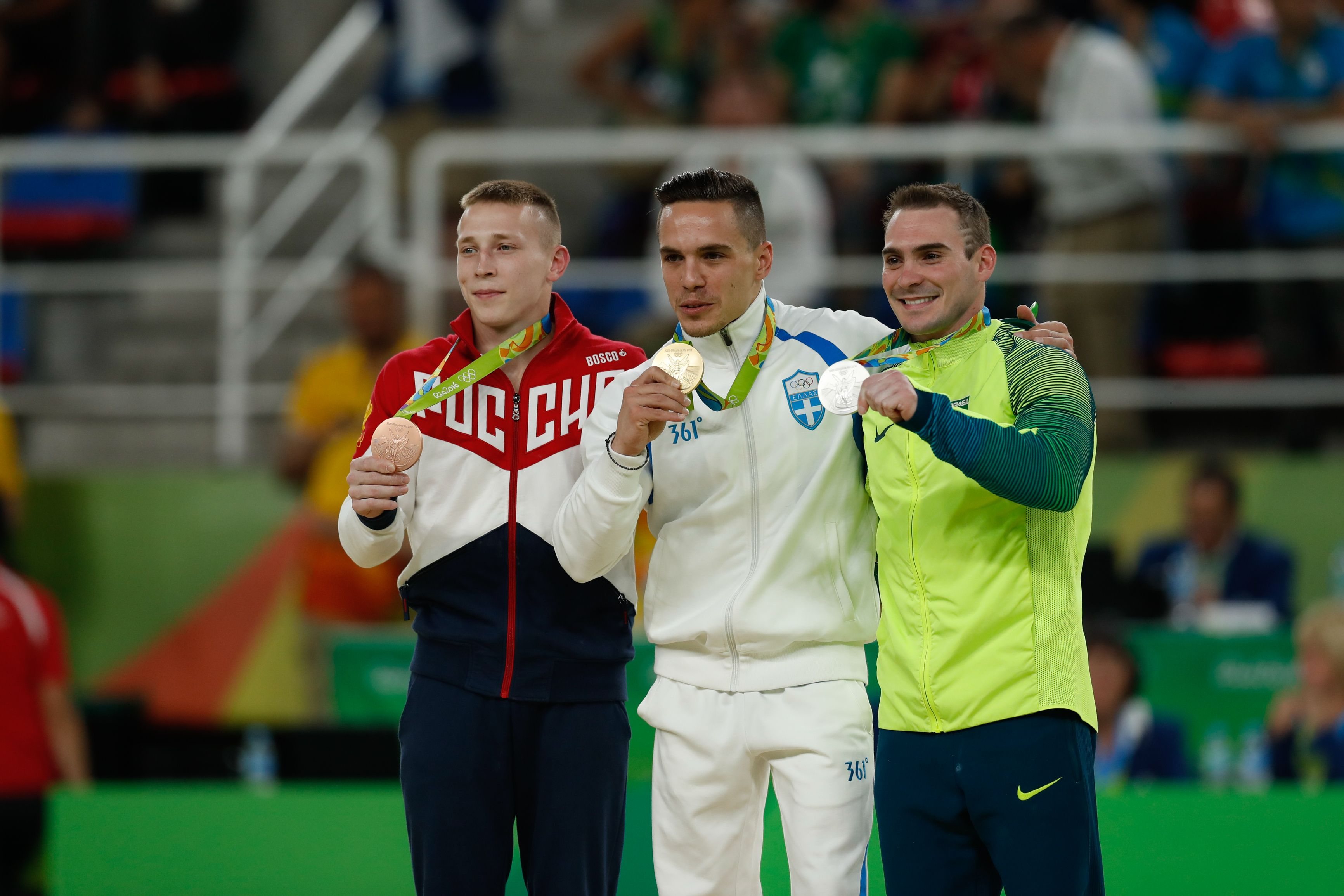 Competitions in gymnastics at the Olympics 2016. Discipline - rings.